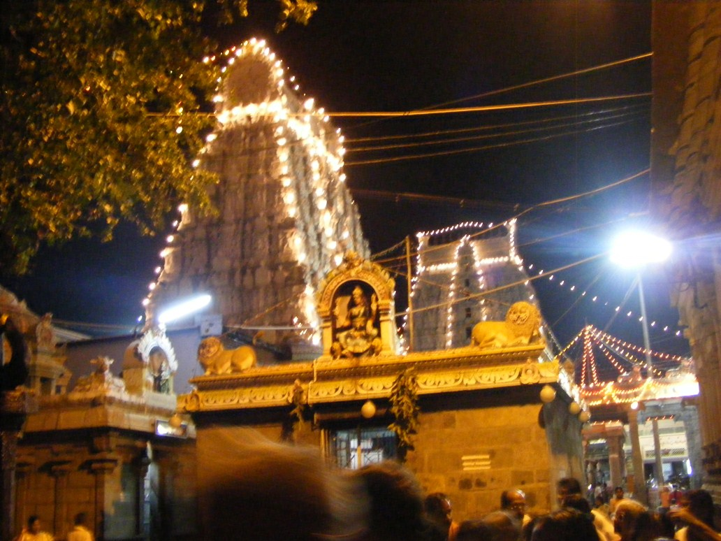 thiruvannamalai arunachaleswara temple